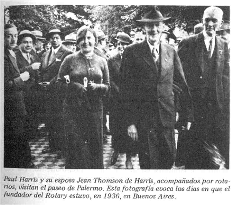 Jean Thomson Harris and Paul Harris in Buenos Aires in 1936